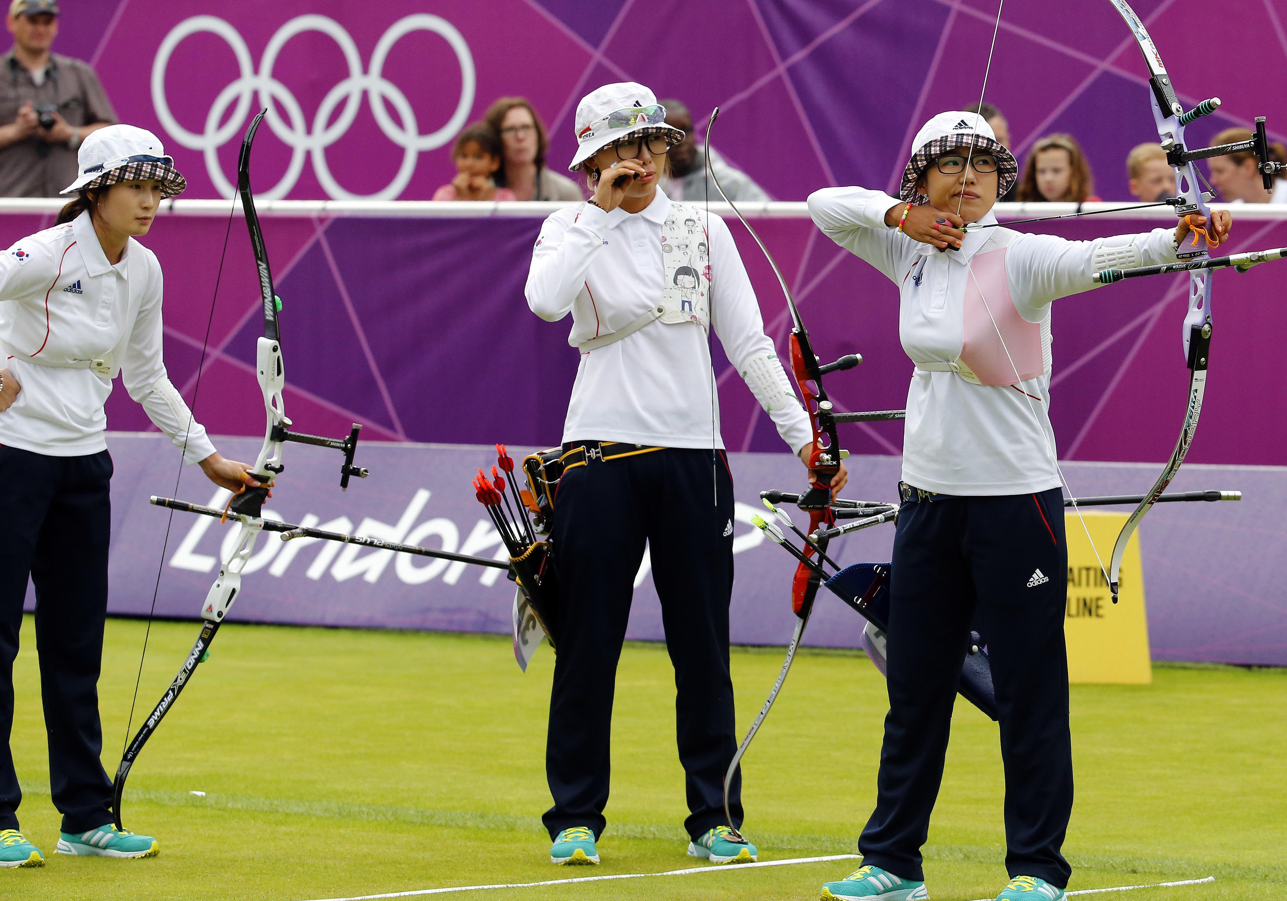 2012 London Olympic Games Korea Archery Women's Team won the gold medal 2012.7.30. Photo by Korean Olympic Committee Ministry of Culture, Sports and Tourism Korean Culture and Information Service 2012 런던 올림픽 한국 여자양궁 대표팀 단체전 금메달 획득 사진제공 - 대한체육회 문화체육관광부 해외문화홍보원